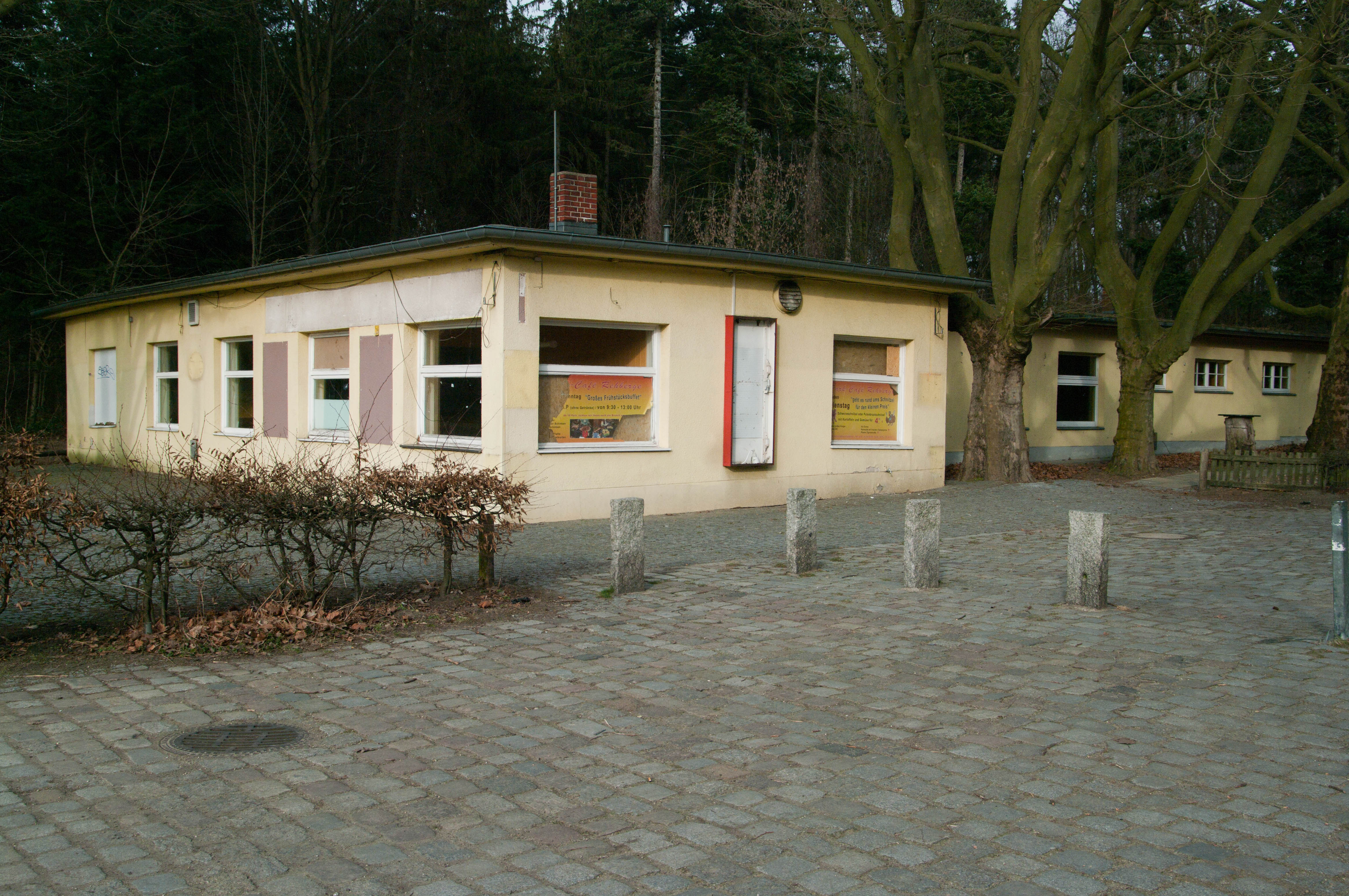 Volkspark Rehberge, Berlin, in March 2016